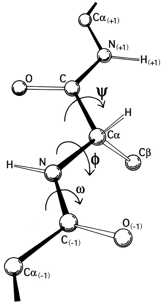 Protein backbone dihedral angles phi, psi, and omega